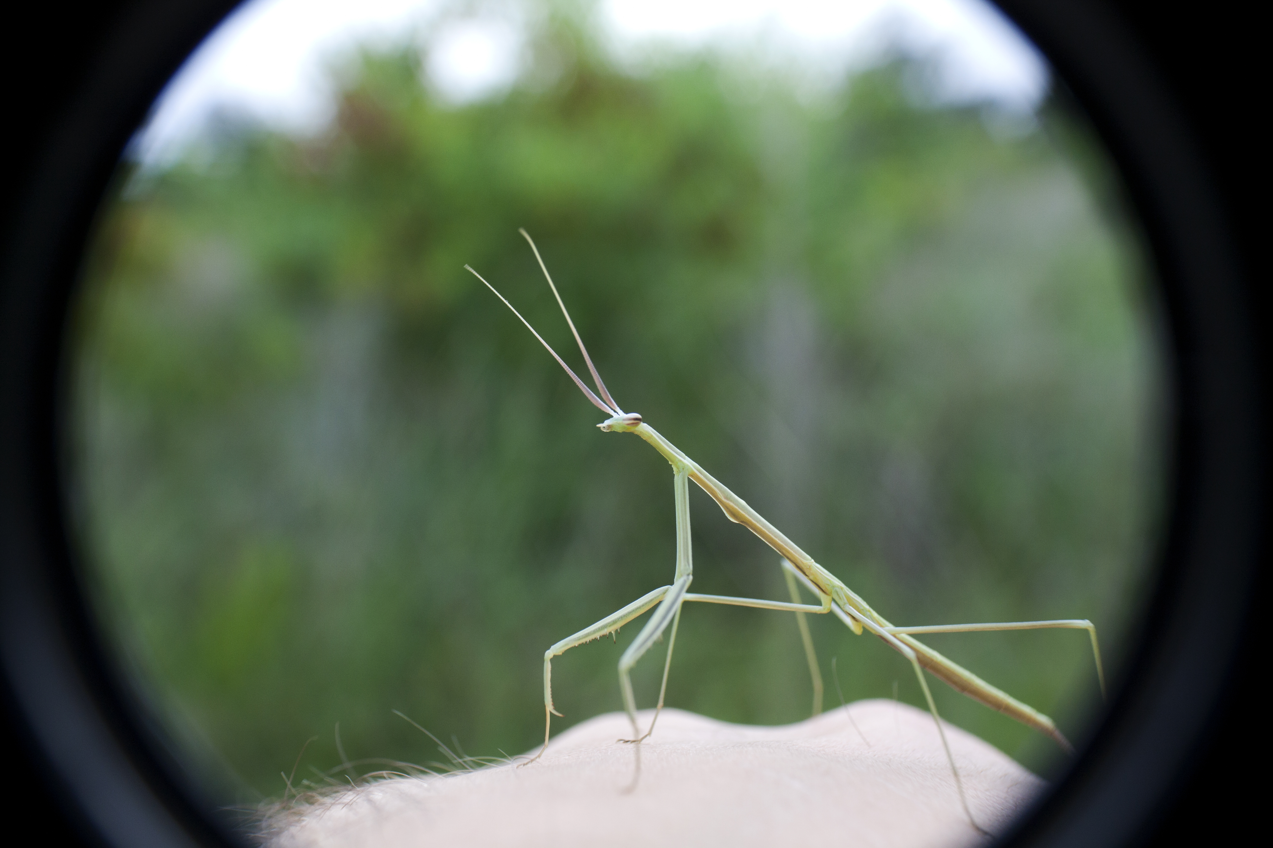 Brunneria borealis from South East Texas